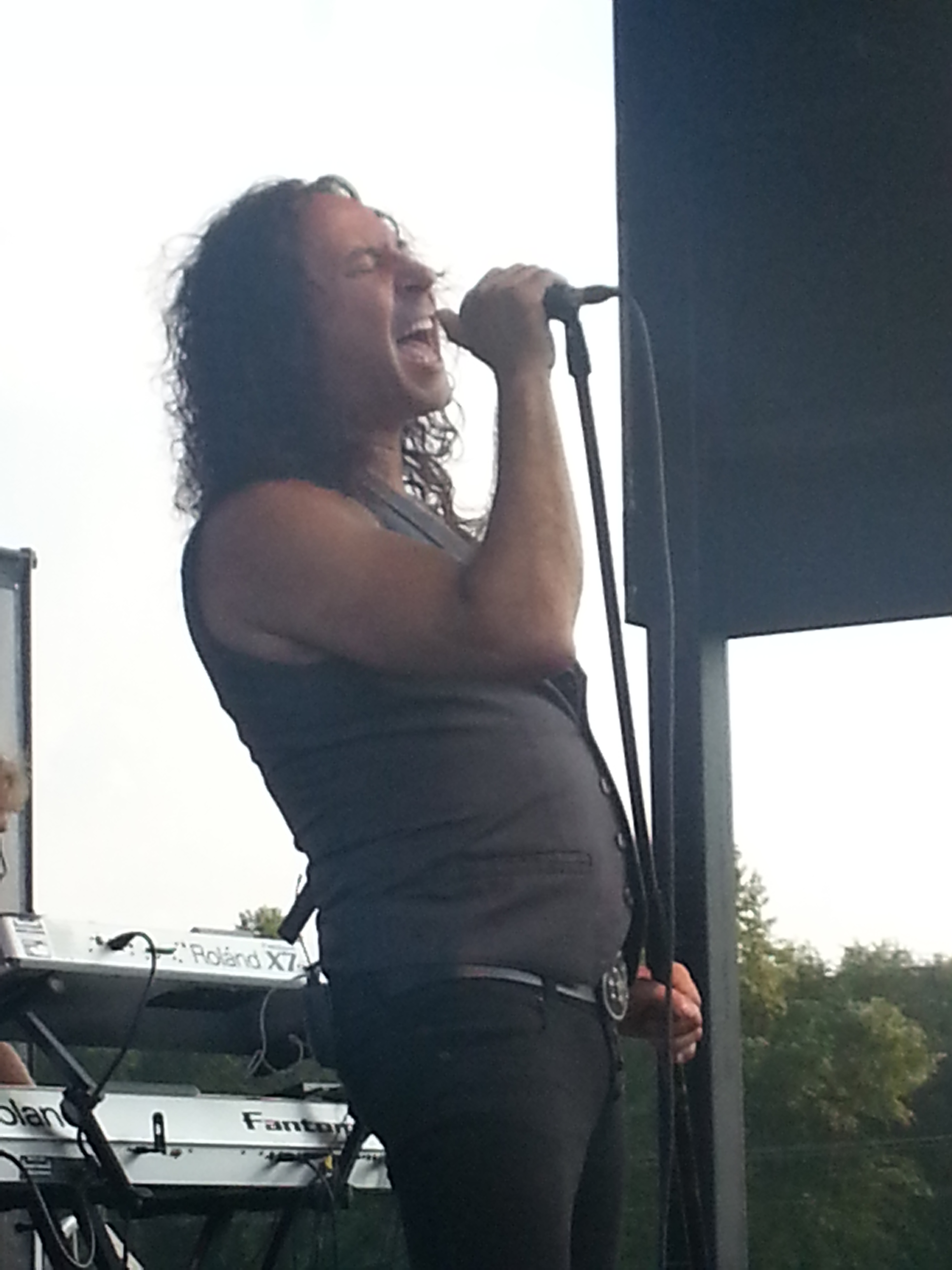 Steve Augeri Performing in 2013